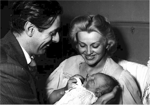 Dario Fo and Franca Rame at the birth of their son Jacopo.